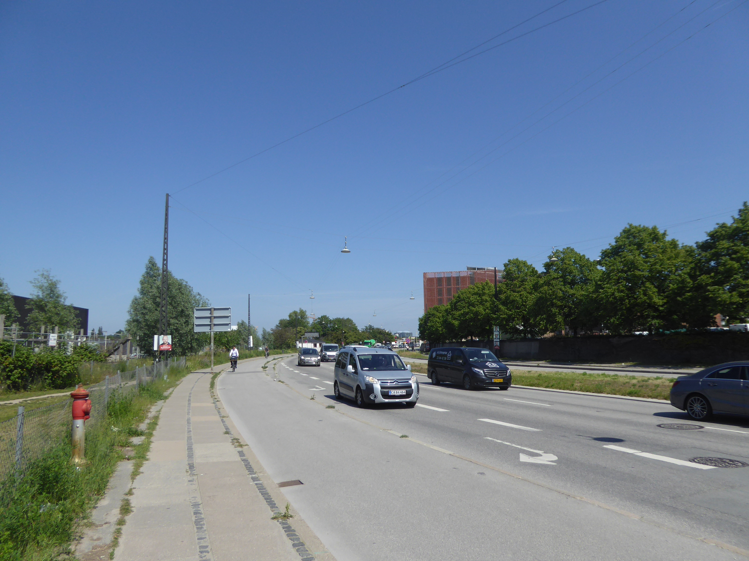 The street Vasbygade in Sydhavnen in Copenhagen.